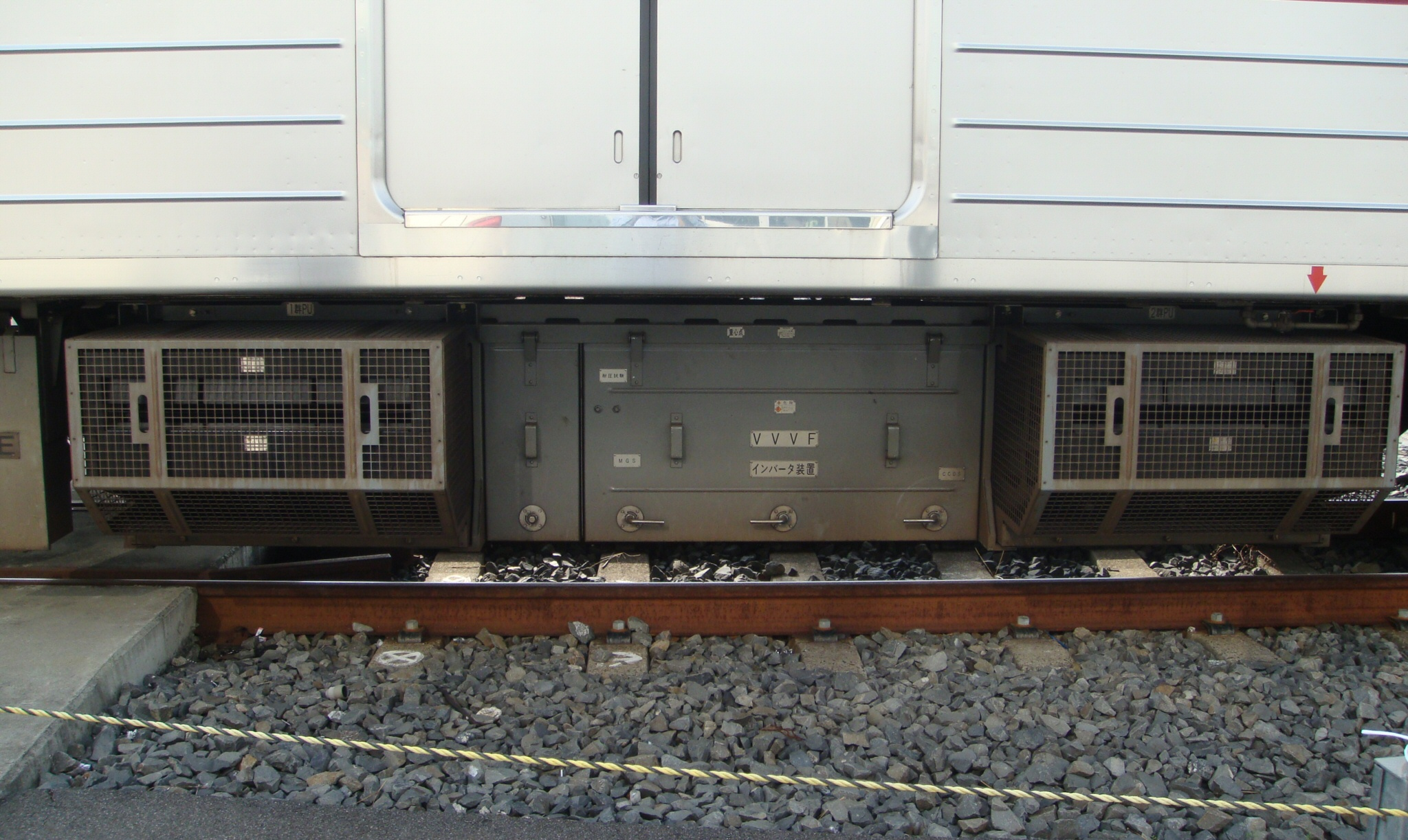 TOBU 10080 EMU main inverter(IGBT)